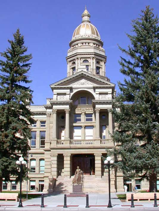 Front exterior of the Wyoming State Capitol in Cheyenne, Wyoming Object location41° 08′ 25″ N, 104° 49′ 11″ W